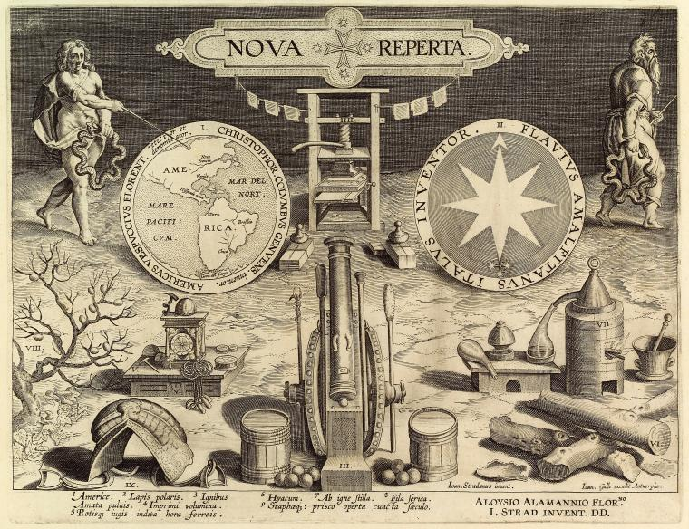 Frontispiece of Nova Reperta